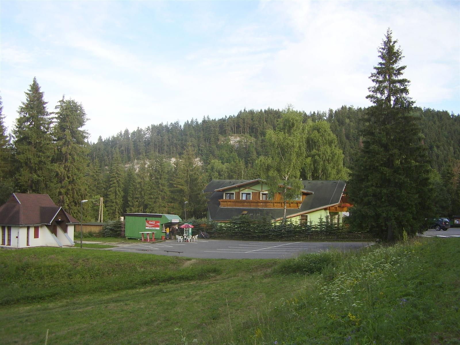 Čingov parking, Slovak Paradaise